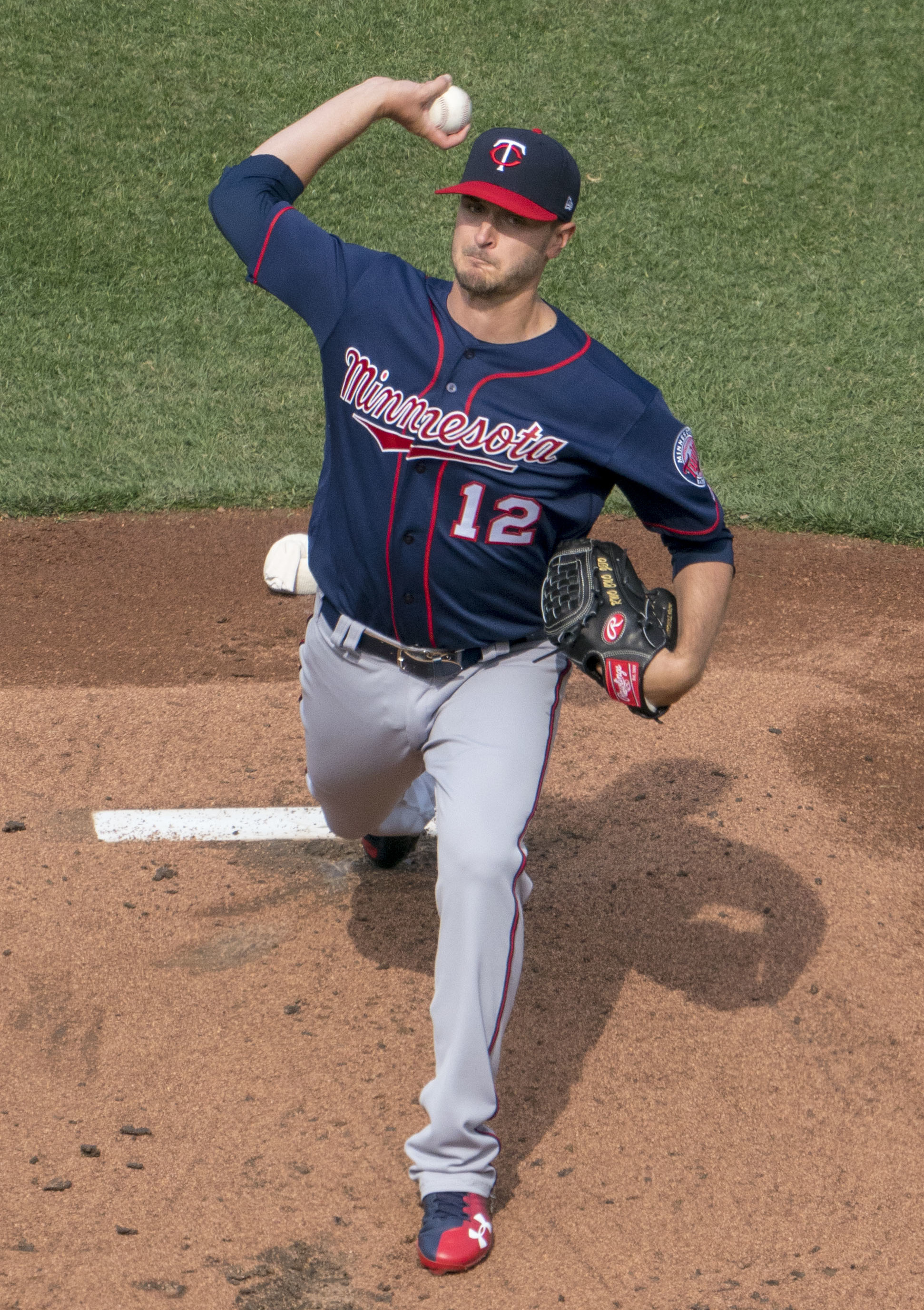 Twins at Orioles 3/29/18